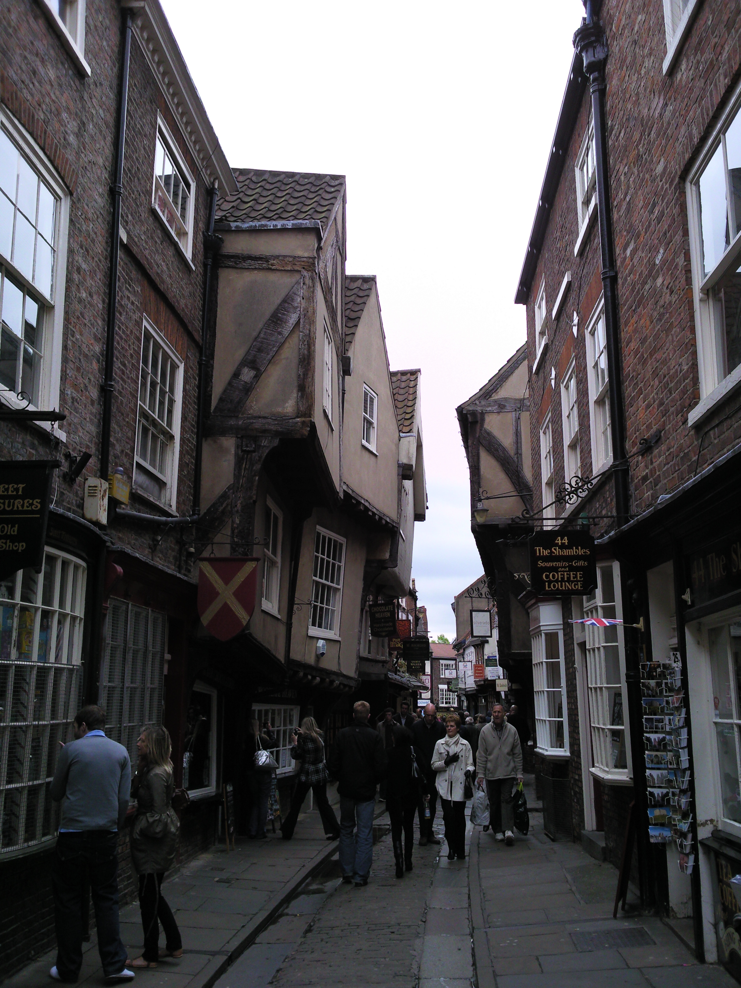 The timber framed buildings encroach over the street.